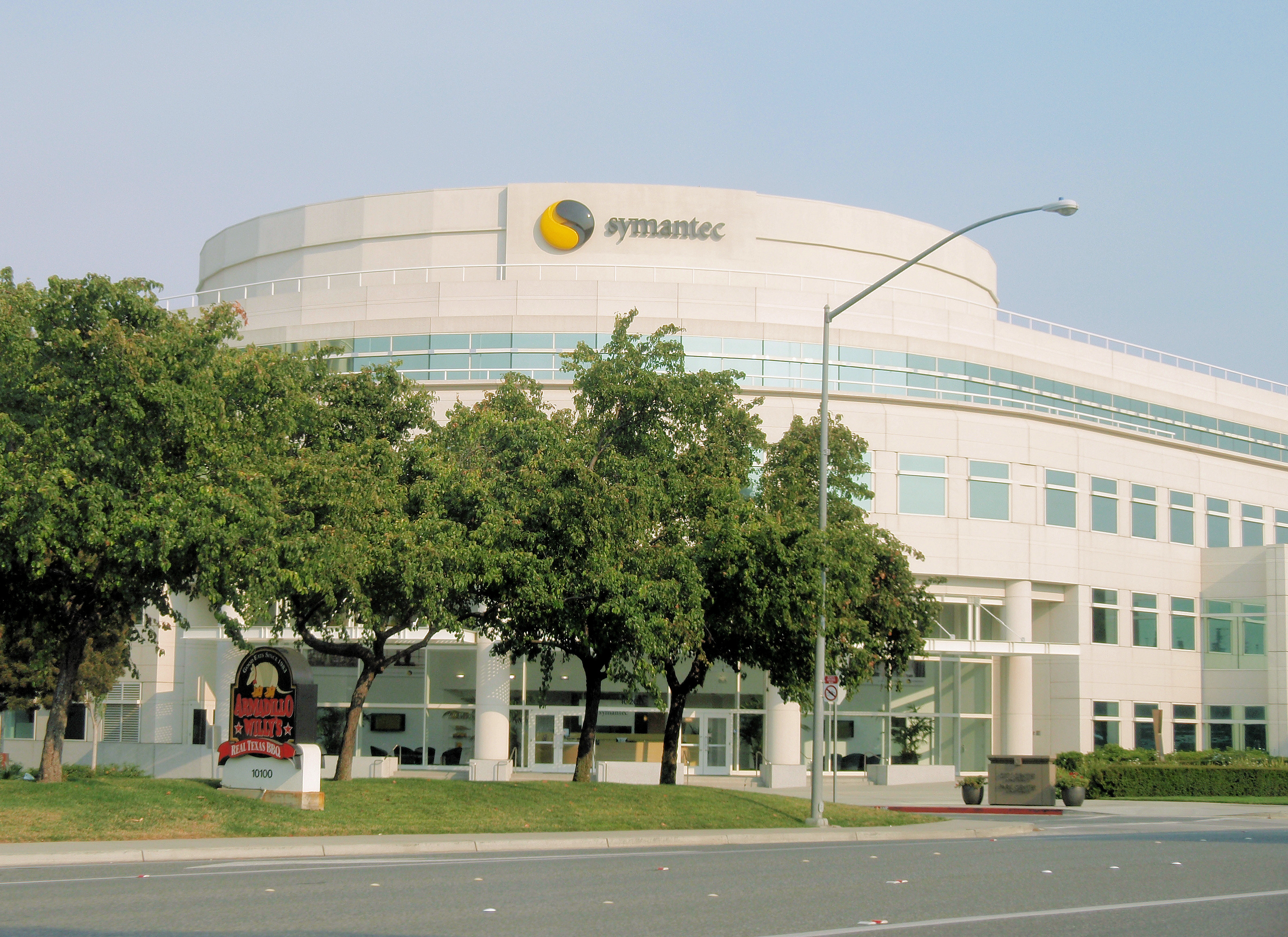 Symantec headquarters in Cupertino, California.